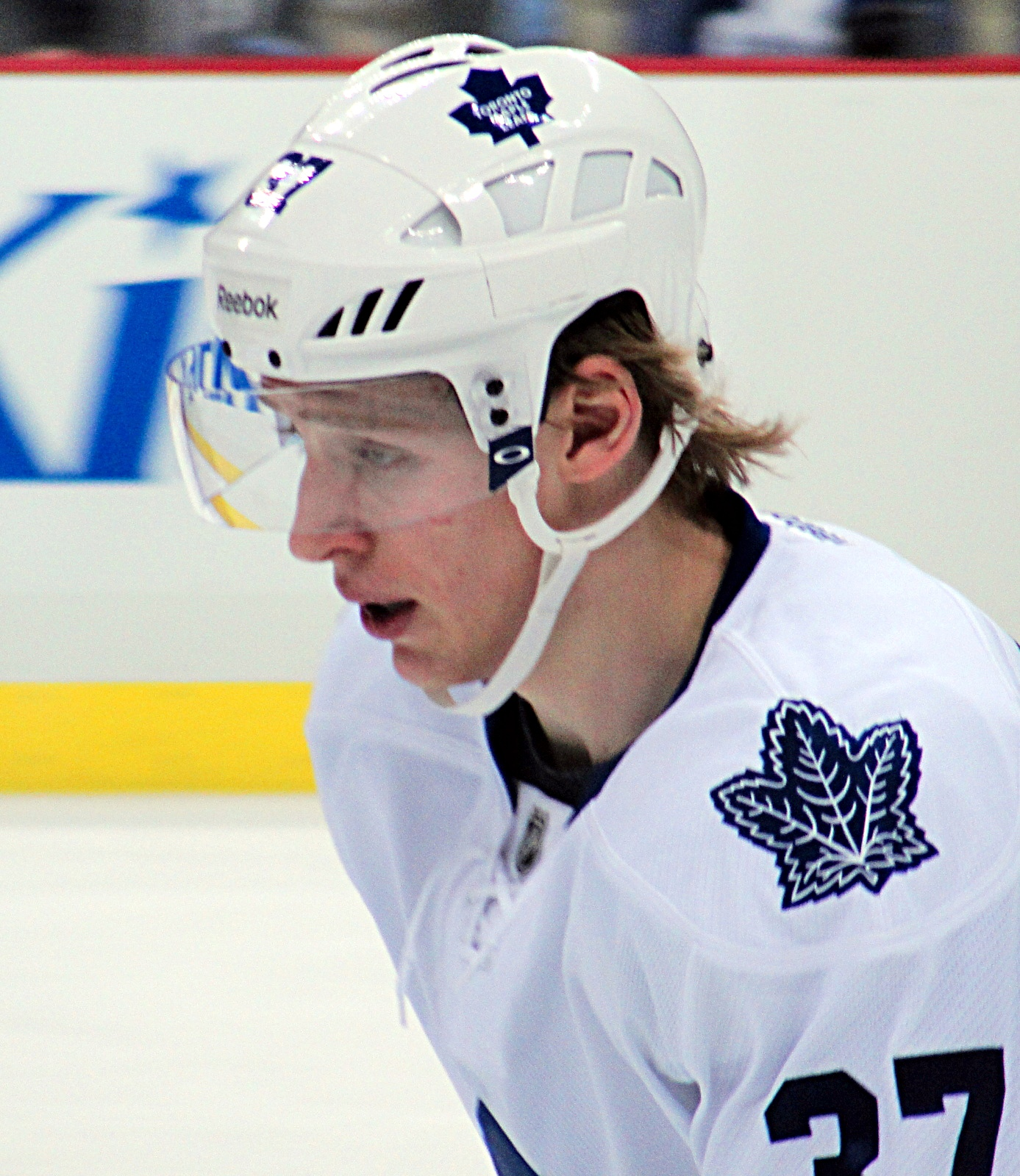 Toronto Maple Leafs forward Carter Ashton skates against the Pittsburgh Penguins, March 7, 2012 at Consol Energy Center in Pittsburgh, PA.